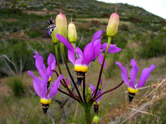 Primula clevelandii (formerly Dodecatheon clevelandii) — Padre's Shooting Star. On the Backbone Trail, at Circle X Ranch Park — in the Santa Monica Mountains National Recreation Area, California.